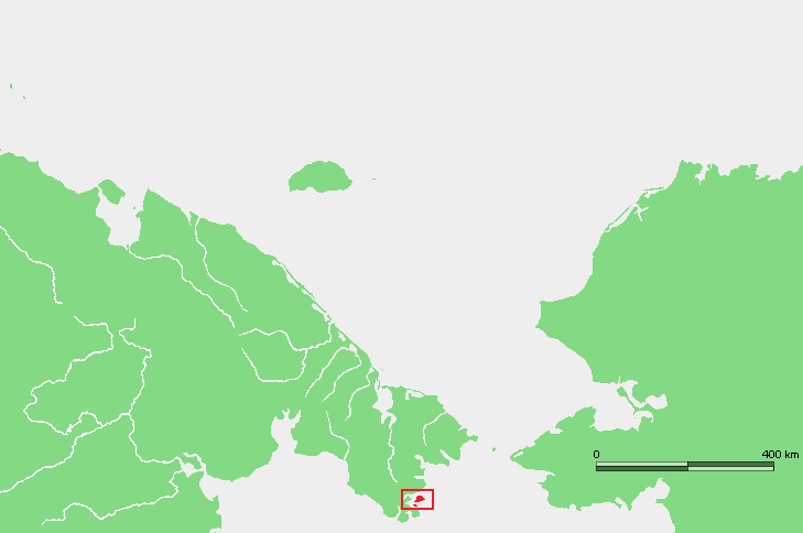 Location map